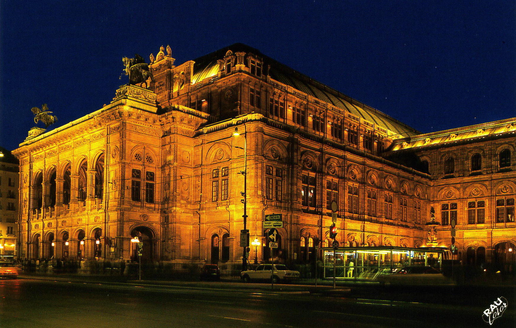 Austria, Vienna, Vienna State Opera